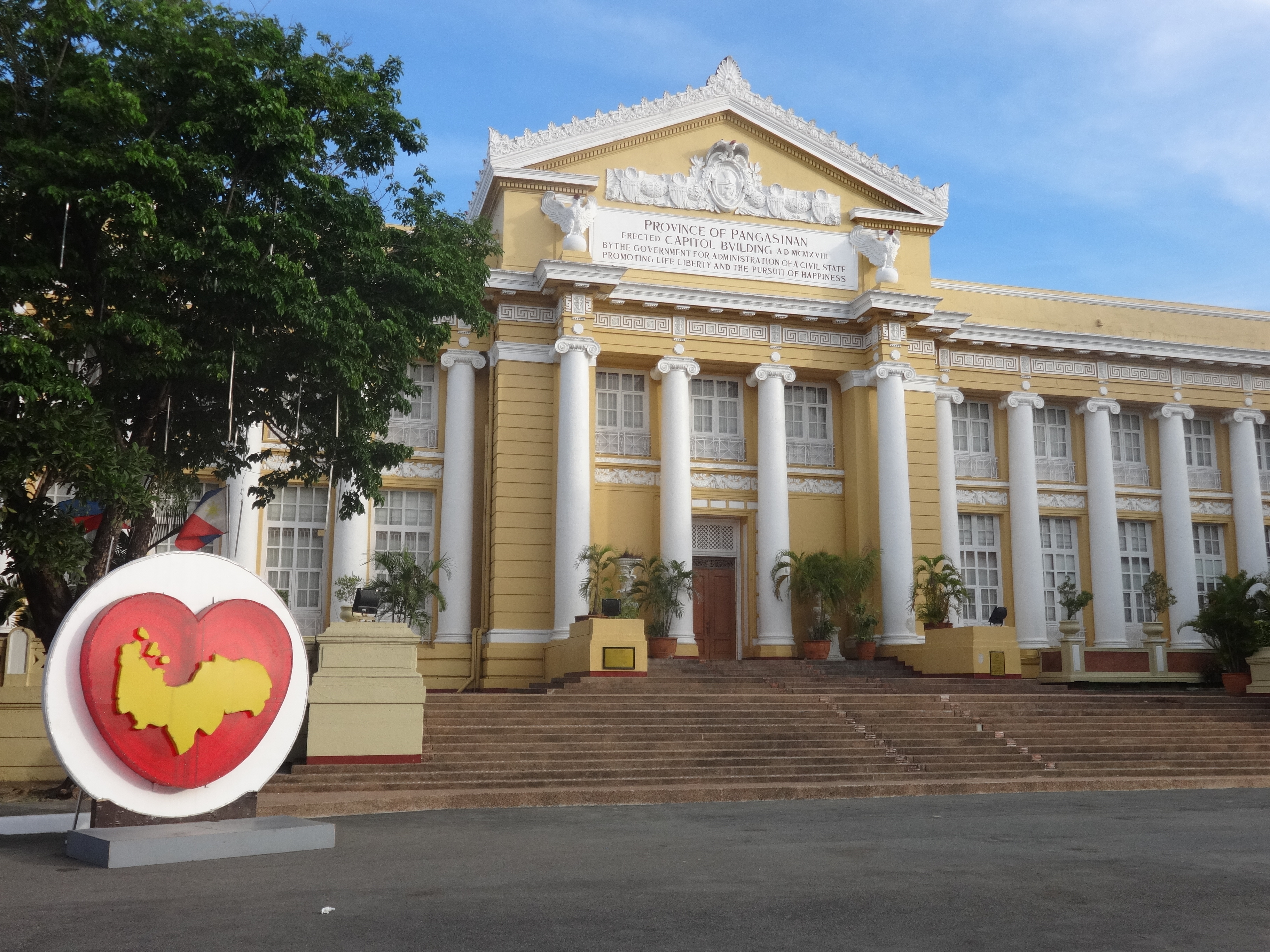 Pangasinan Capitol in Lingayen, Pangasinan